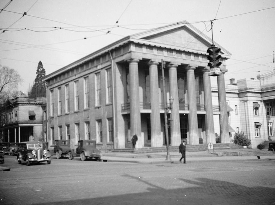 Photographic view from the southeast of the Rowan County Courthouse, 200 North Main Street, Salisbury, Rowan County, North Carolina. Historic American Buildings Survey, Library of Congress, Washington, D. C.